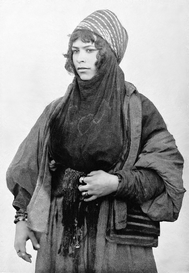 Syrian Bedouin woman, at the World's Columbian Exposition, 1893.